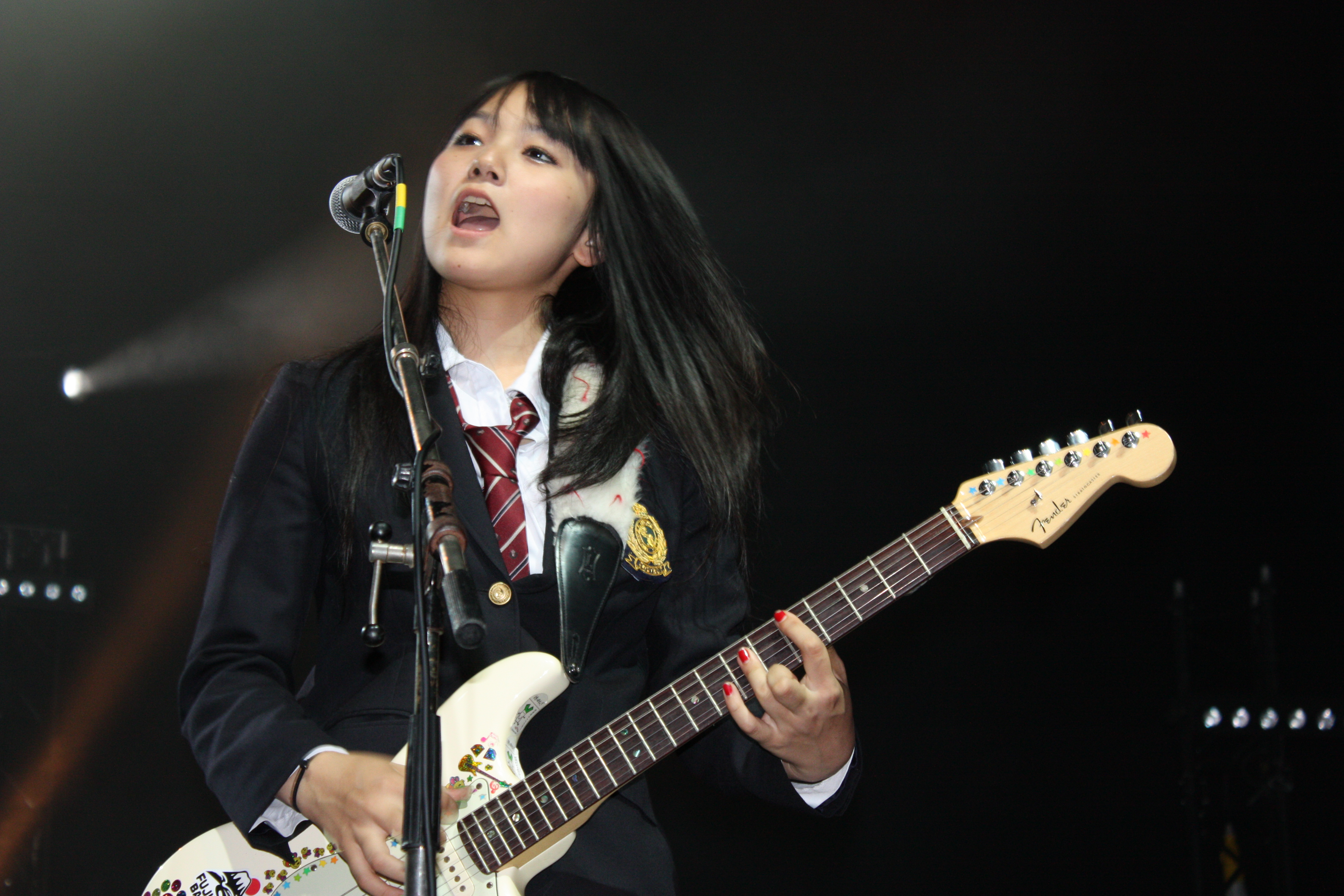 SCANDAL live at Japan Expo 2008 (Paris, France).